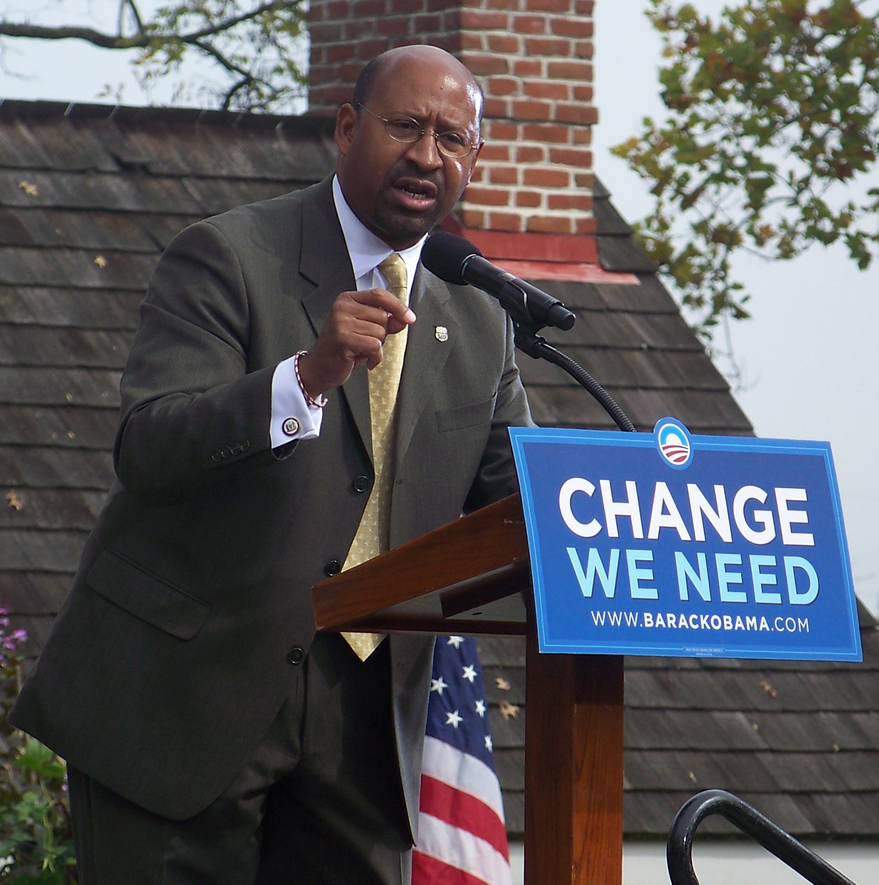 Michael Nutter speaking at a rally in support of Barack Obama; Horsham, PA